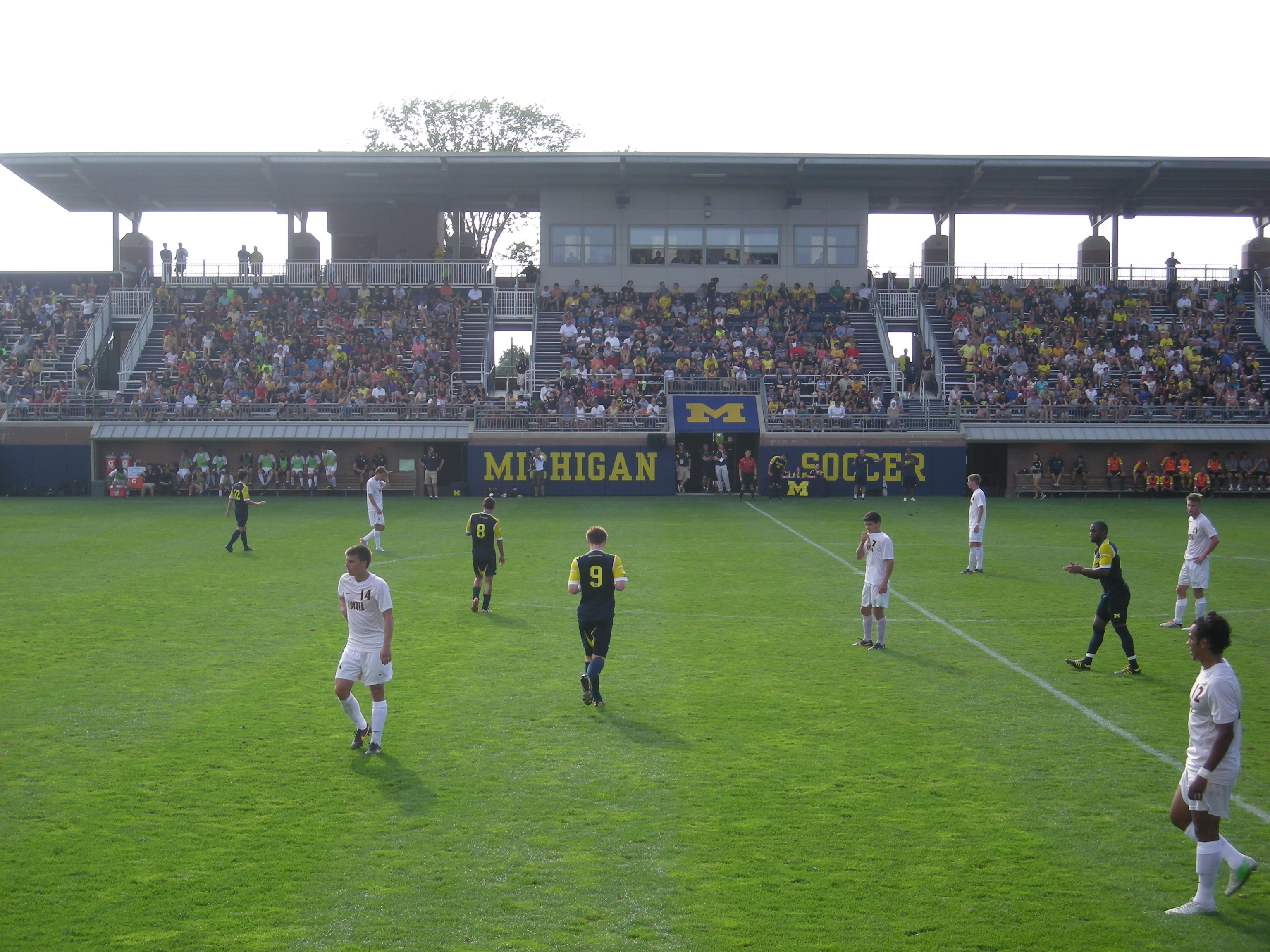 In-game action during the Loyola Ramblers vs. Michigan Wolverines men's soccer game at the U-M Soccer Stadium in Ann Arbor, Michigan (United States). Michigan won 5–2.